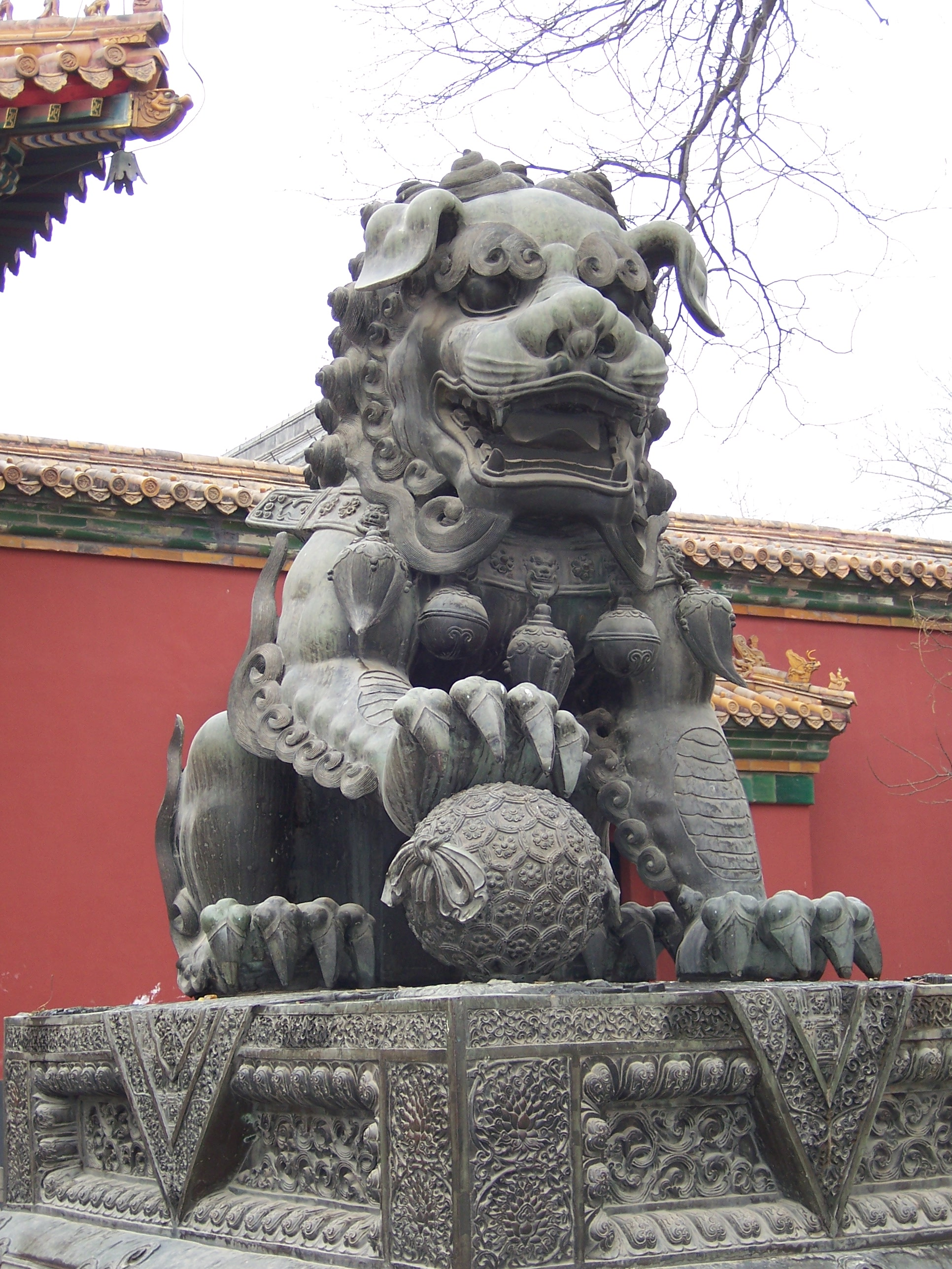 China - Beijing 12 - lion outside the Tibetan Monastery